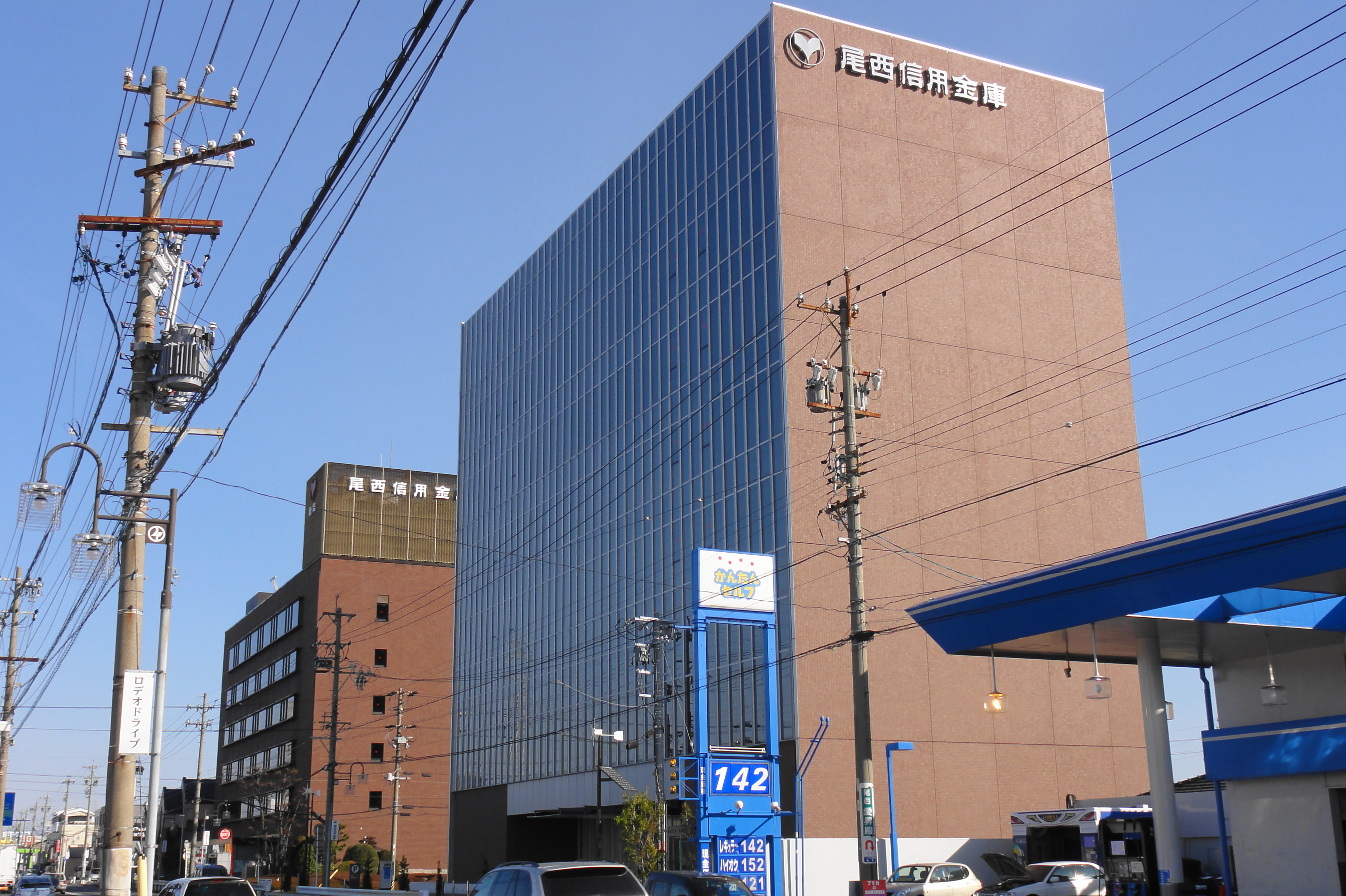 Bisai shinkin bank(Head office and office center),Aichi prefecture, Japan